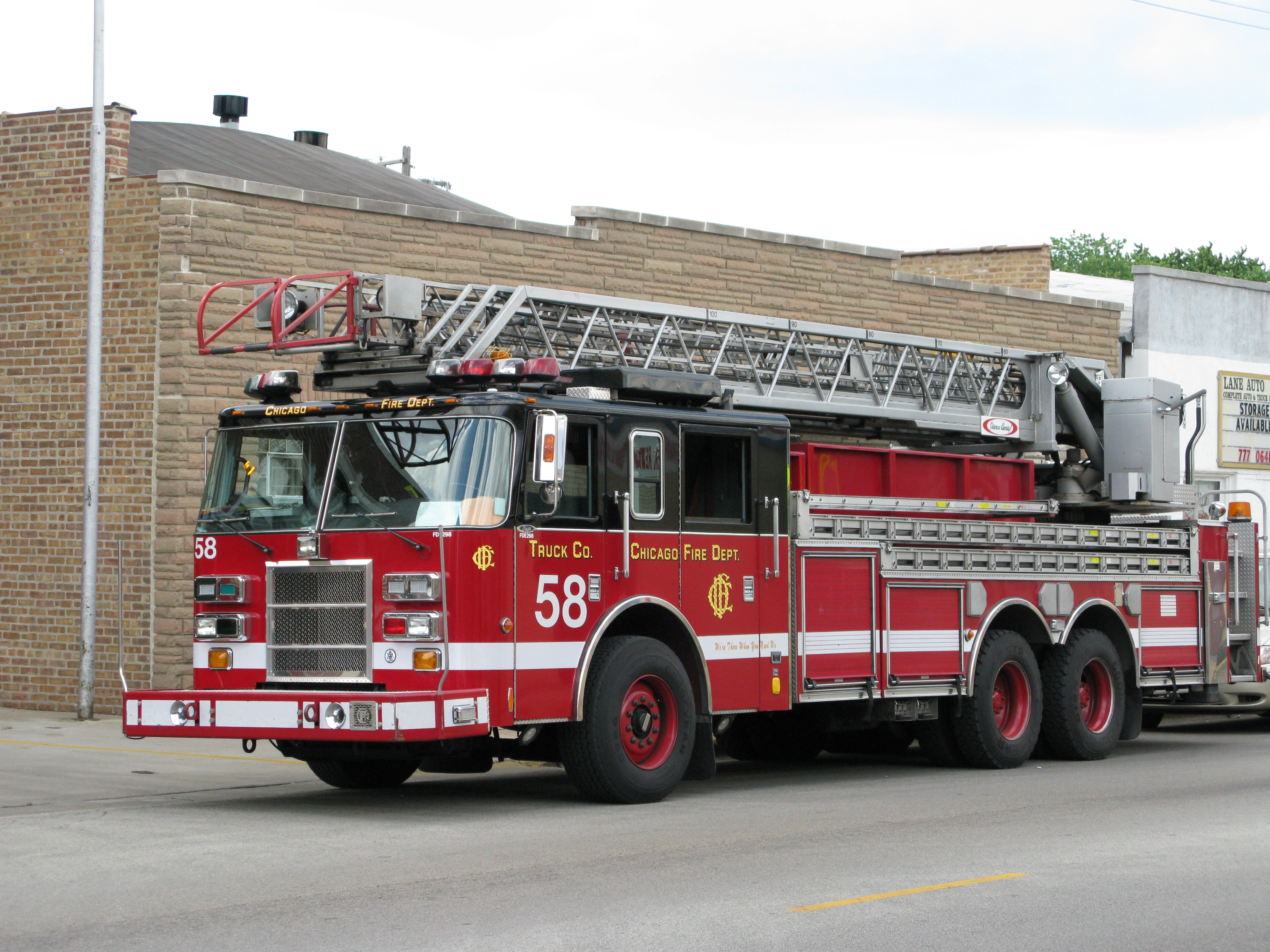 Chicago Fire Dept. Truck Company 58 Left side view 4911 W Belmont ave, Chicago